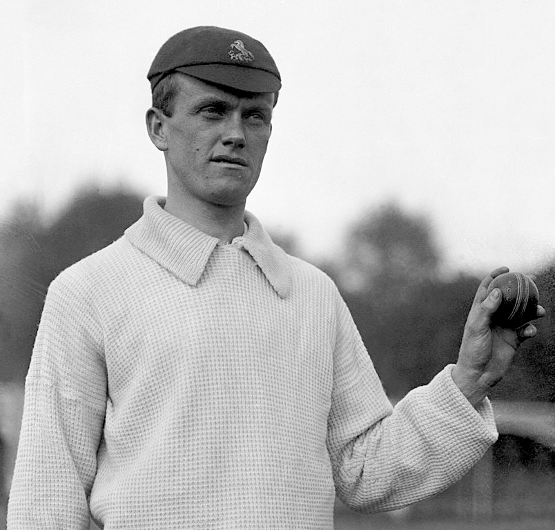 Colin Blythe, Kent and England, circa 1905.